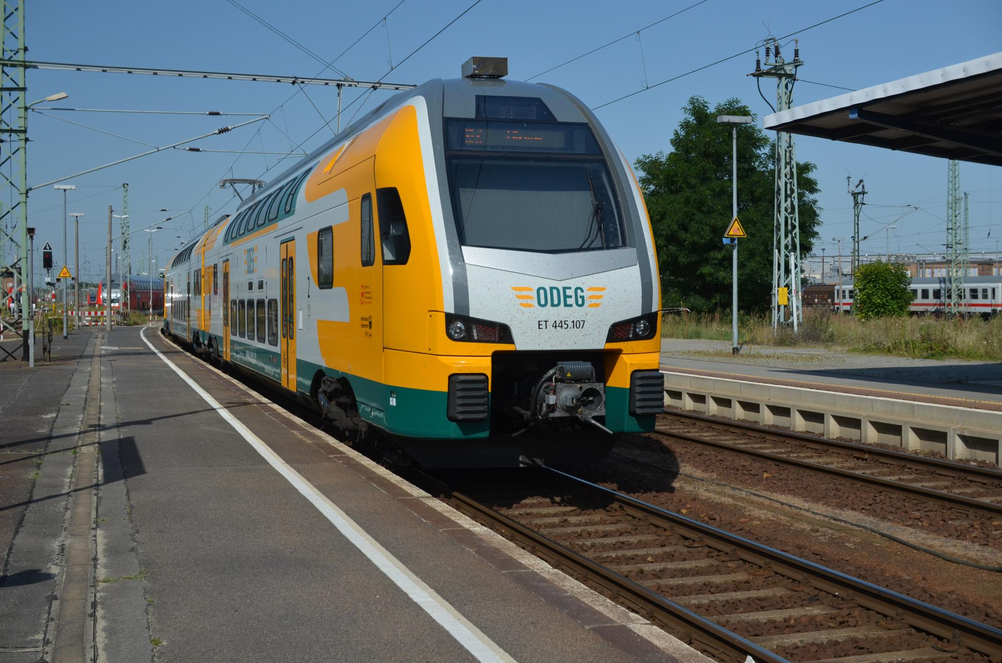 ODEG ET 445.107 in Cottbus Hbf